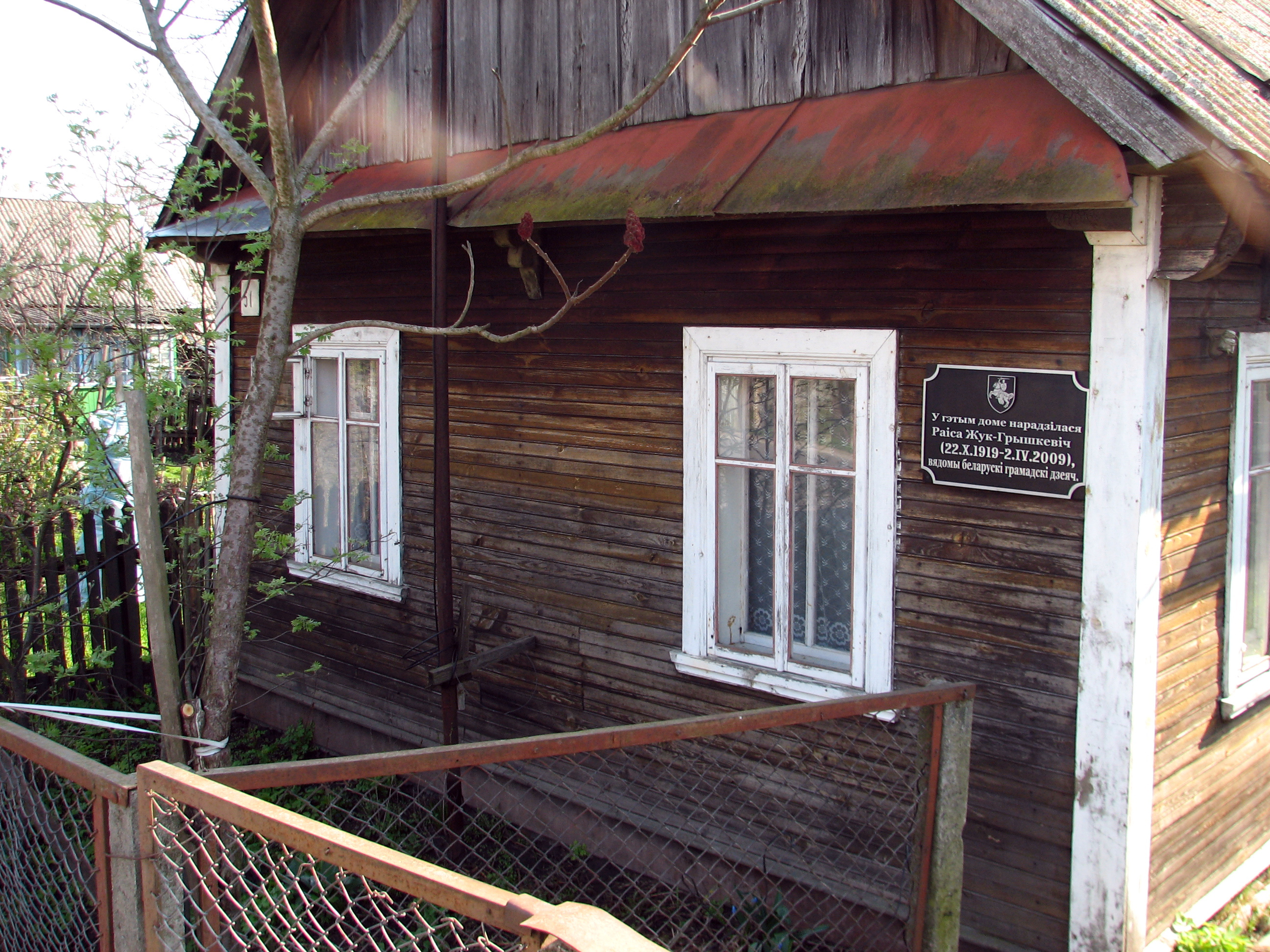 A house in Pruzhany, Belarus, where Raisa Żuk-Hryszkiewicz was born.